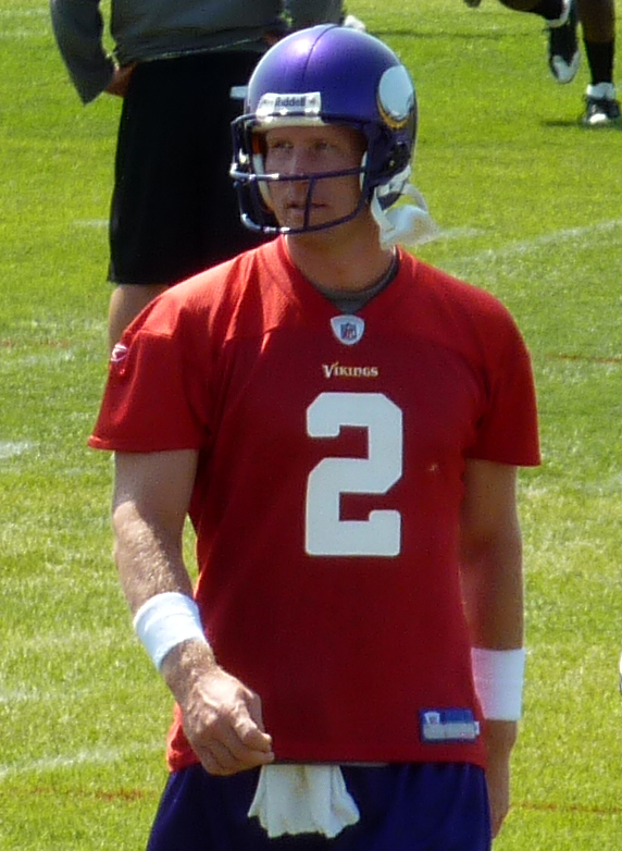 Sage Rosenfels, while a member of the Minnesota Vikings, at the Vikings' 2009 Training Camp, Mankato, Minnesota, USA.